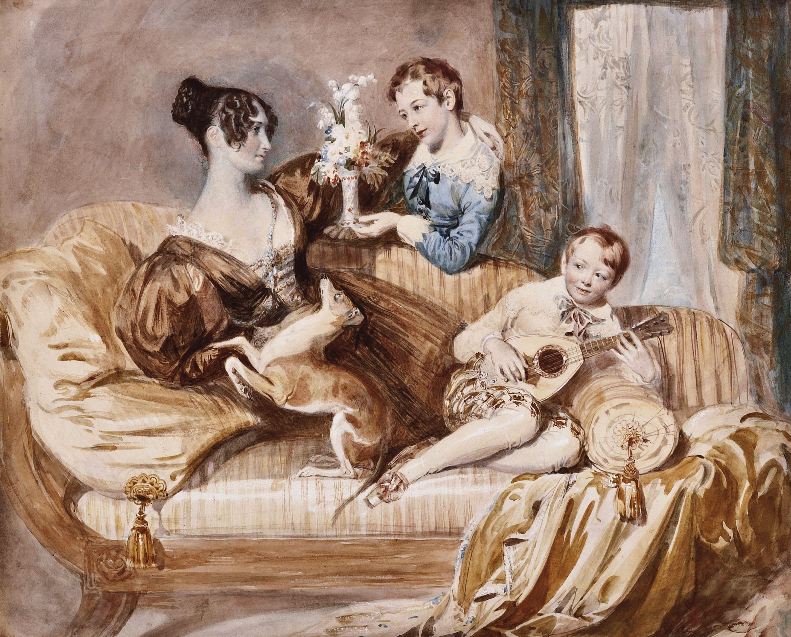 Mrs Julia Hardwick, née Shaw, with her two sons. The eldest boy died of smallpox whilst still at Eton. The younger son Philip Charles Hardwick is shown here playing the mandolin watercolour heightened with touches of white and with scratching out 41.3 x 50.8 cm signed b.l.: with initials